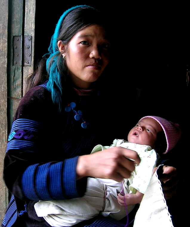 In a house of a minority village, Yuanyang, Honghe Hani and Yi Autonomous Prefecture, Yunnan, China